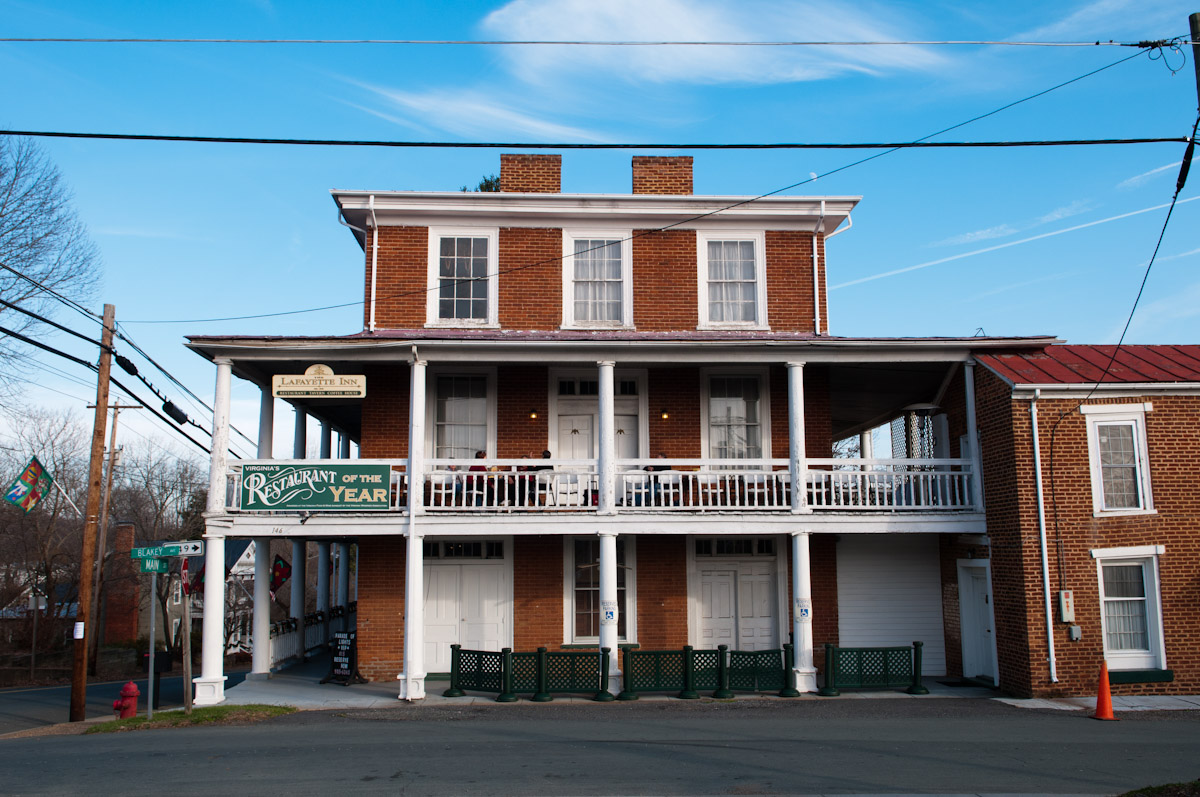 The Lafayette Inn on Main Street